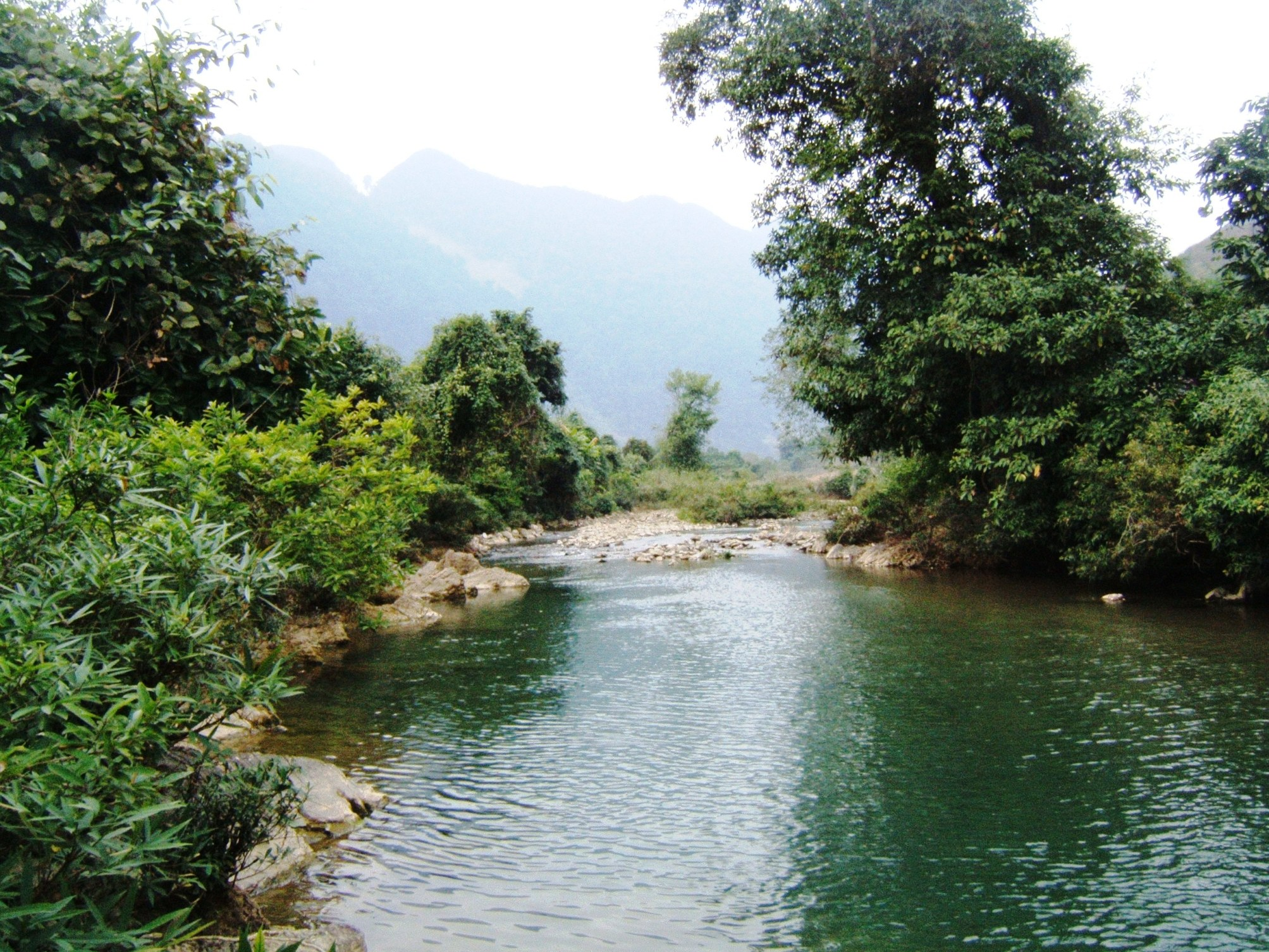 Hydropower dam of Bản Rạ causes water deficiency in river